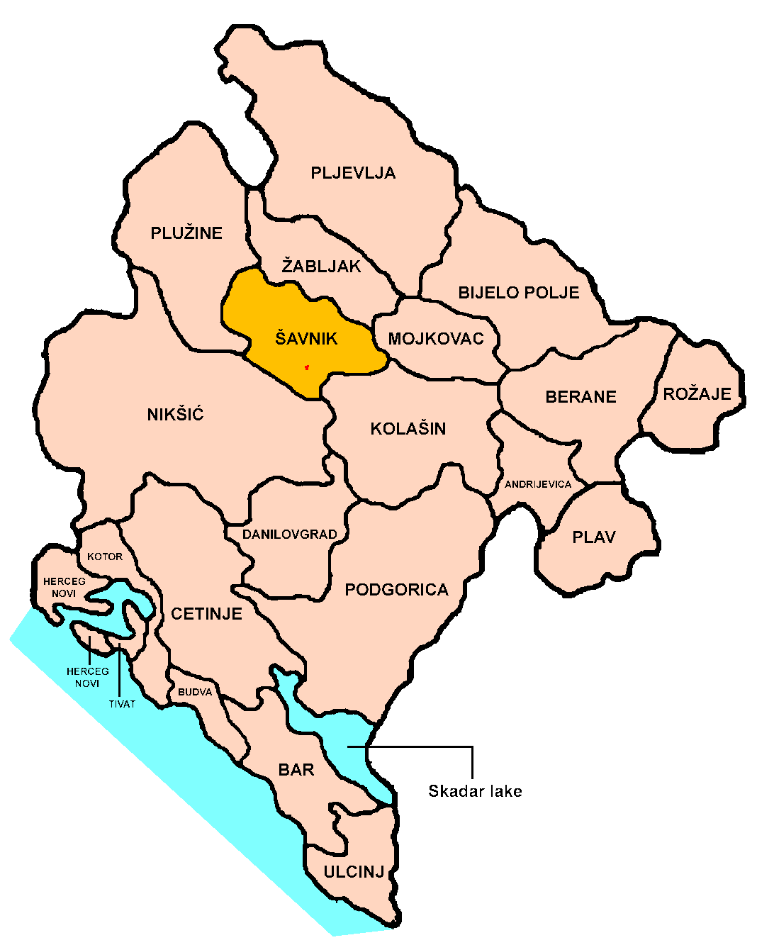 Location of Rožaje town and municipality within Montenegro